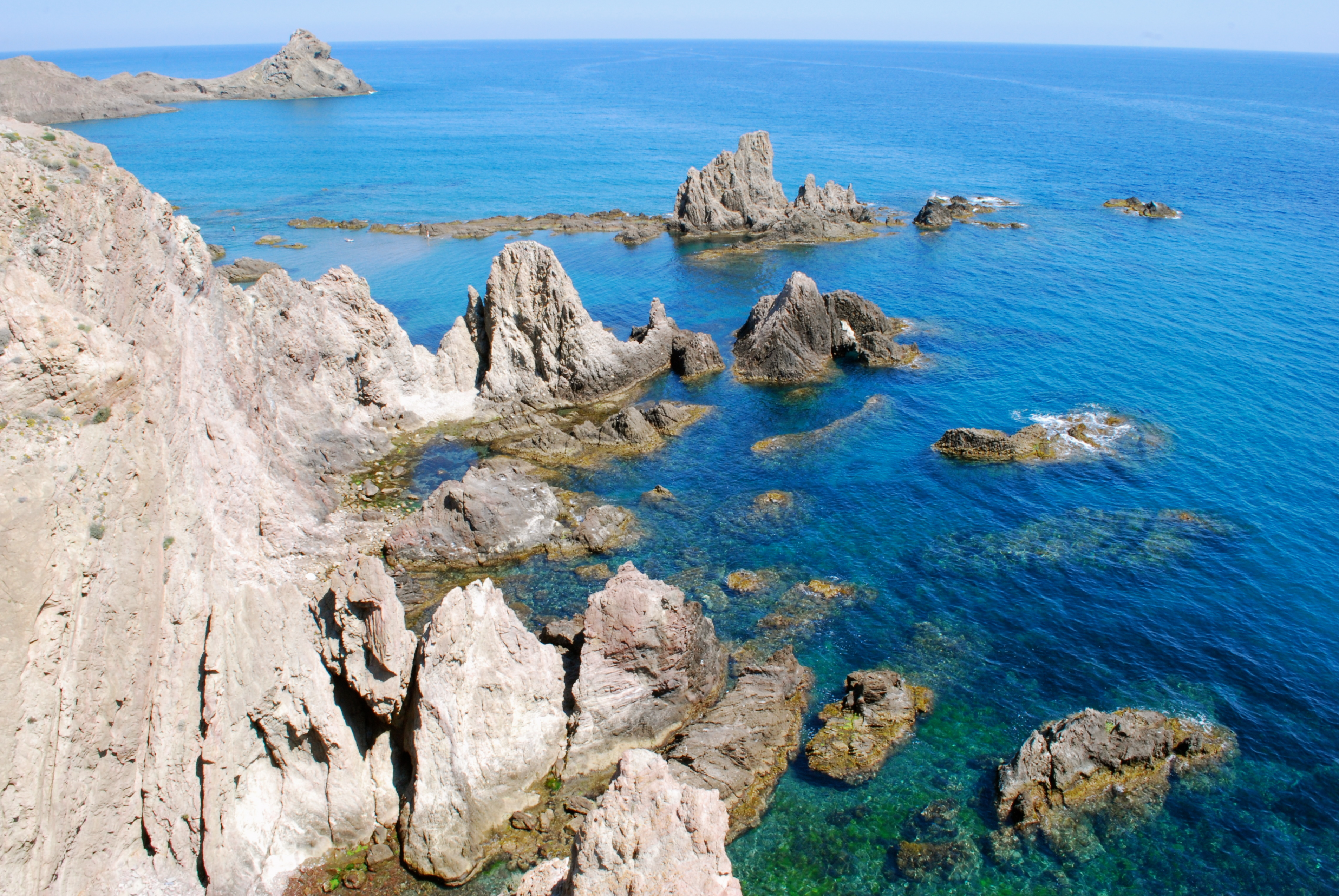 Arrecife de las Sirenas is a defining landmark of the Parque Natural de Cabo de Gata.